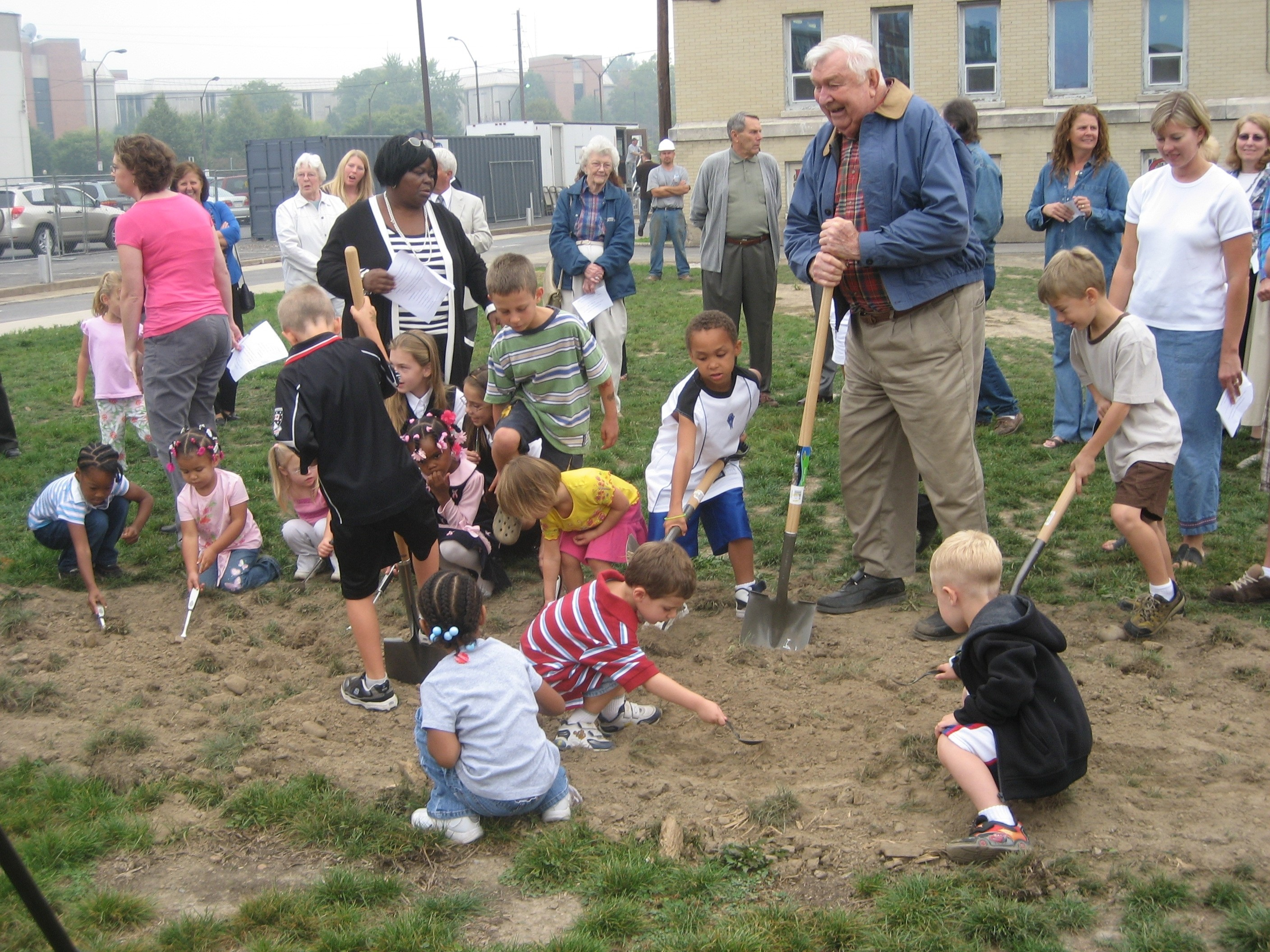 Dr. Kenneth Cooper assisted at the groundbreaking ceremony of the Kathryn Siegel Welch Children's Wing.